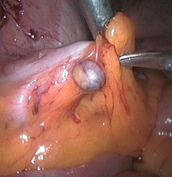 laparoscopical view of a diverticulum of the colon sigmoideum